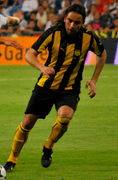 Marcelo Sosa (Peñarol) trying to get the ball from Cristiano Ronaldo (Real Madrid).